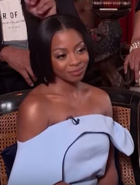 “A Fall From Grace” Cast Joins The Circle